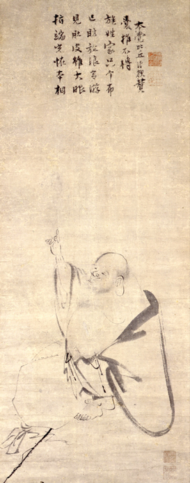 Budai